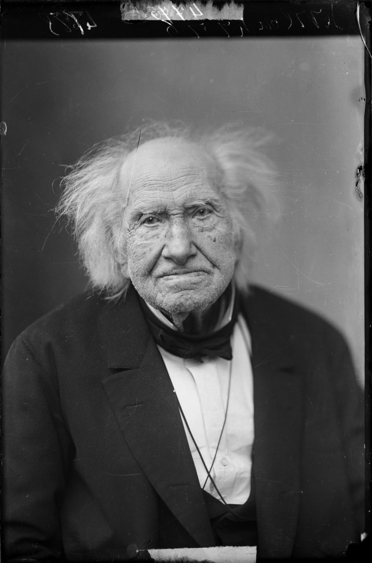 Michel Eugène Chevreul (1786-08-31–1889-04-09). Tagged as retouched by source. Cropped by uploader.